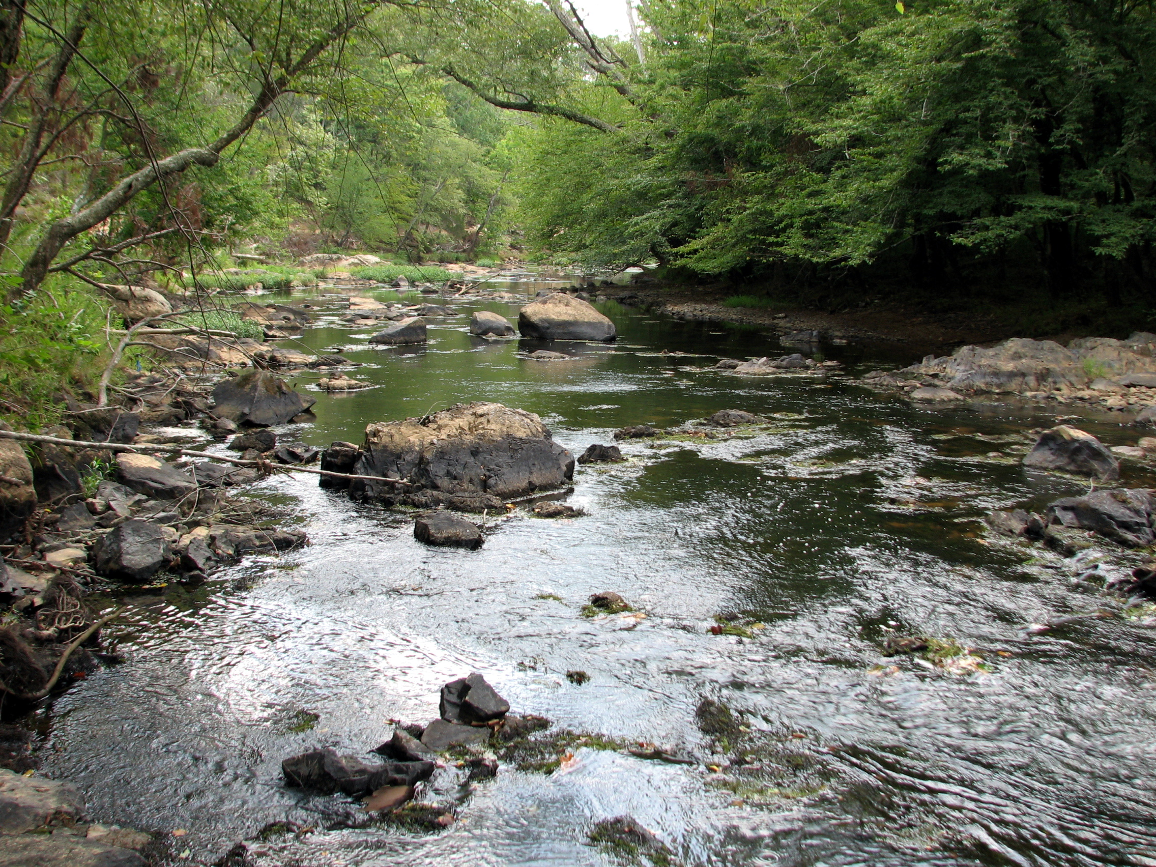 Eno River NC SP - Fews Ford Eno River State Park, North Carolina, US.